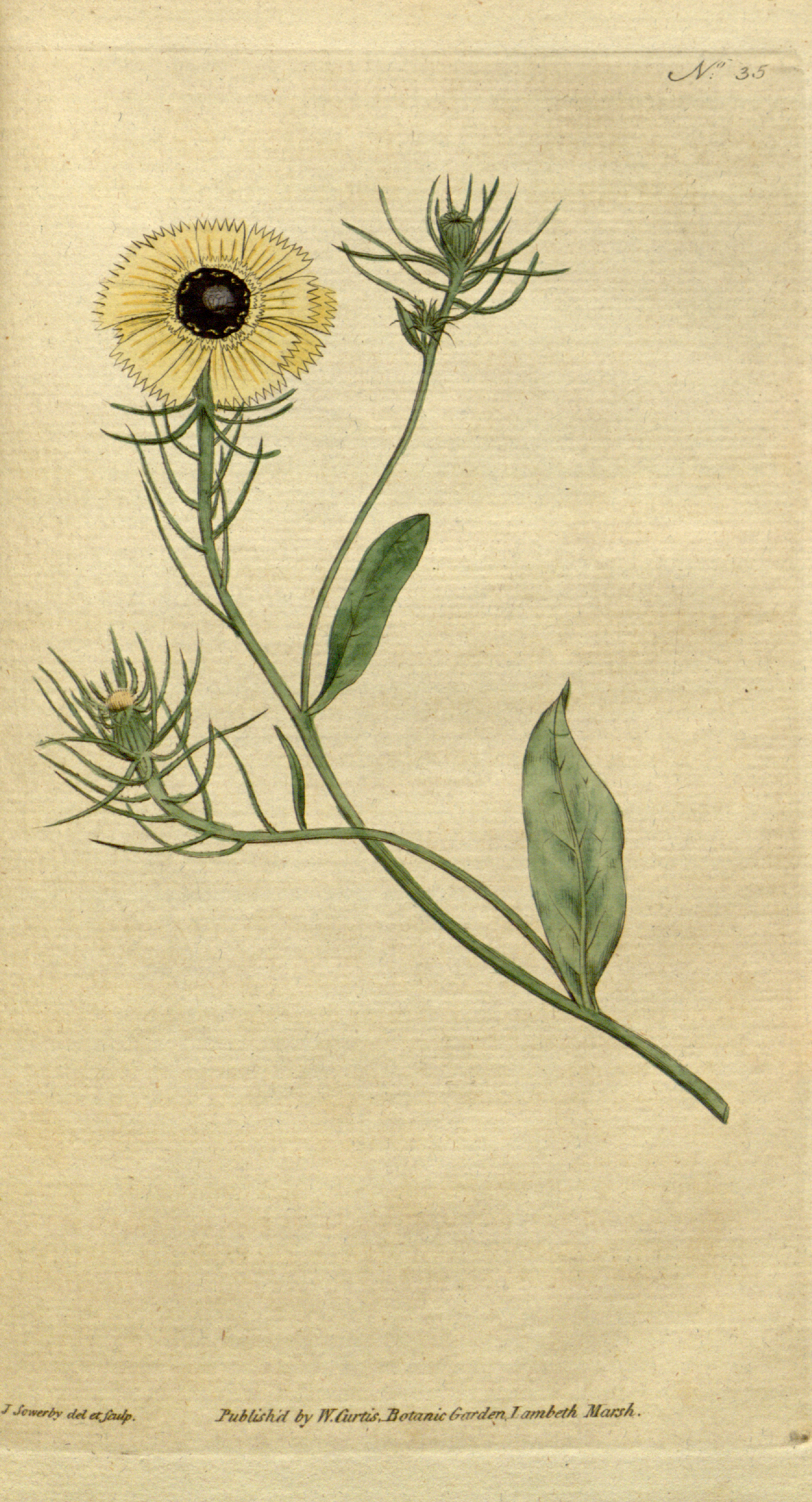 This is Plate 35 from The Botanical Magazine, Volume 1. Crepis barbata (Tolpis barbata)